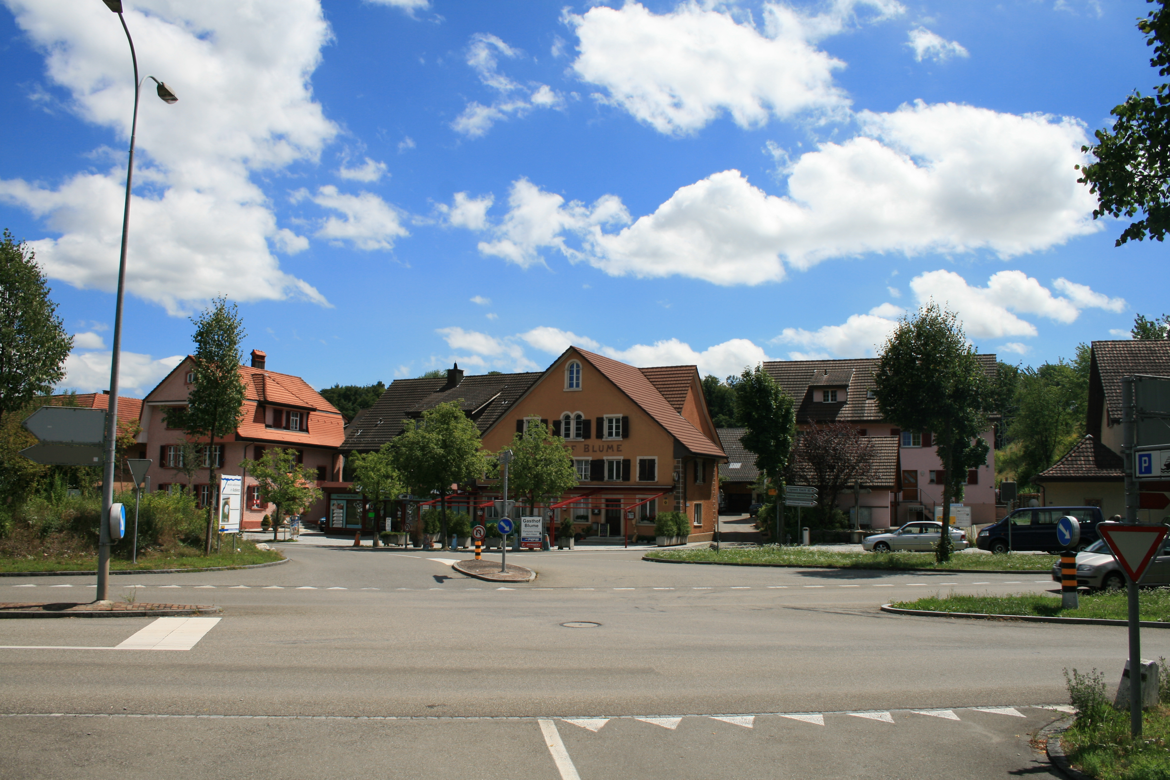 Village of Koblenz AG, Switzerland